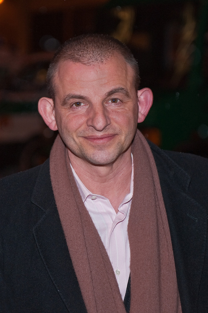 French born actor Dominique Horwitz, arriving at the after show opening party of the 60th Berlin International Film Festival.